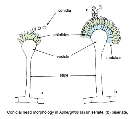 This is a diagram of Aspergillus species conidiophore morphology, with all parts of the conidiophore labelled.